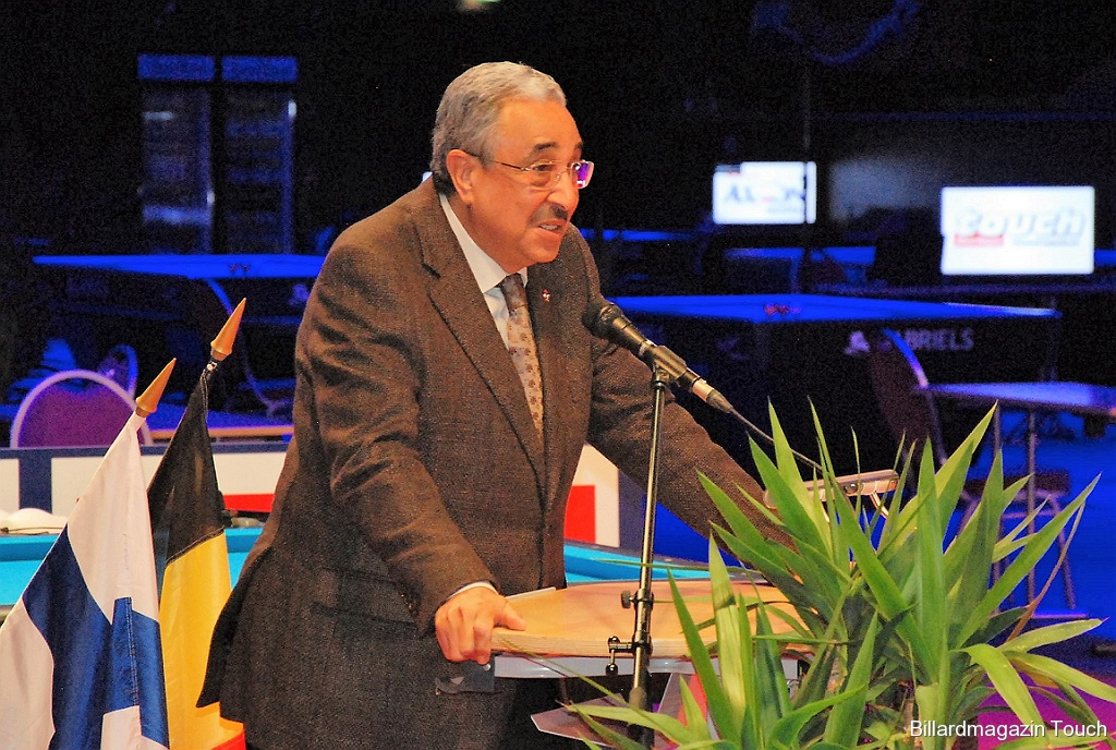 see file name